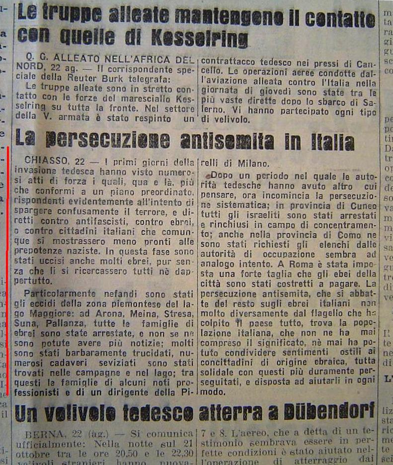 Newspaper from Lugano(Switzerlnd) of october 1946, being the first to announce the killings of Jews in the villages around the Lake Maggiore by the SS.